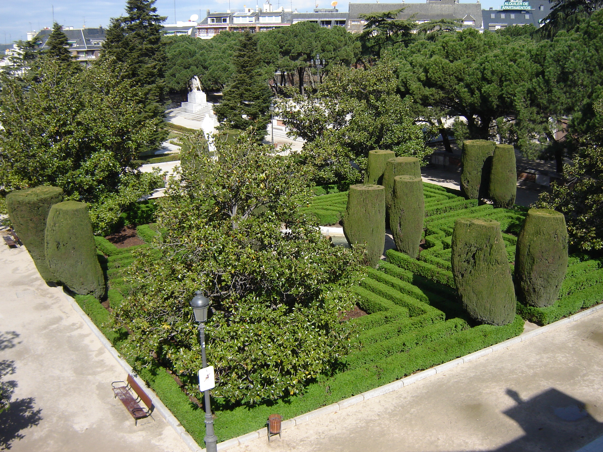 Sabatini Gardens, beside the north façade of the Royal Palace of Madrid (Spain).